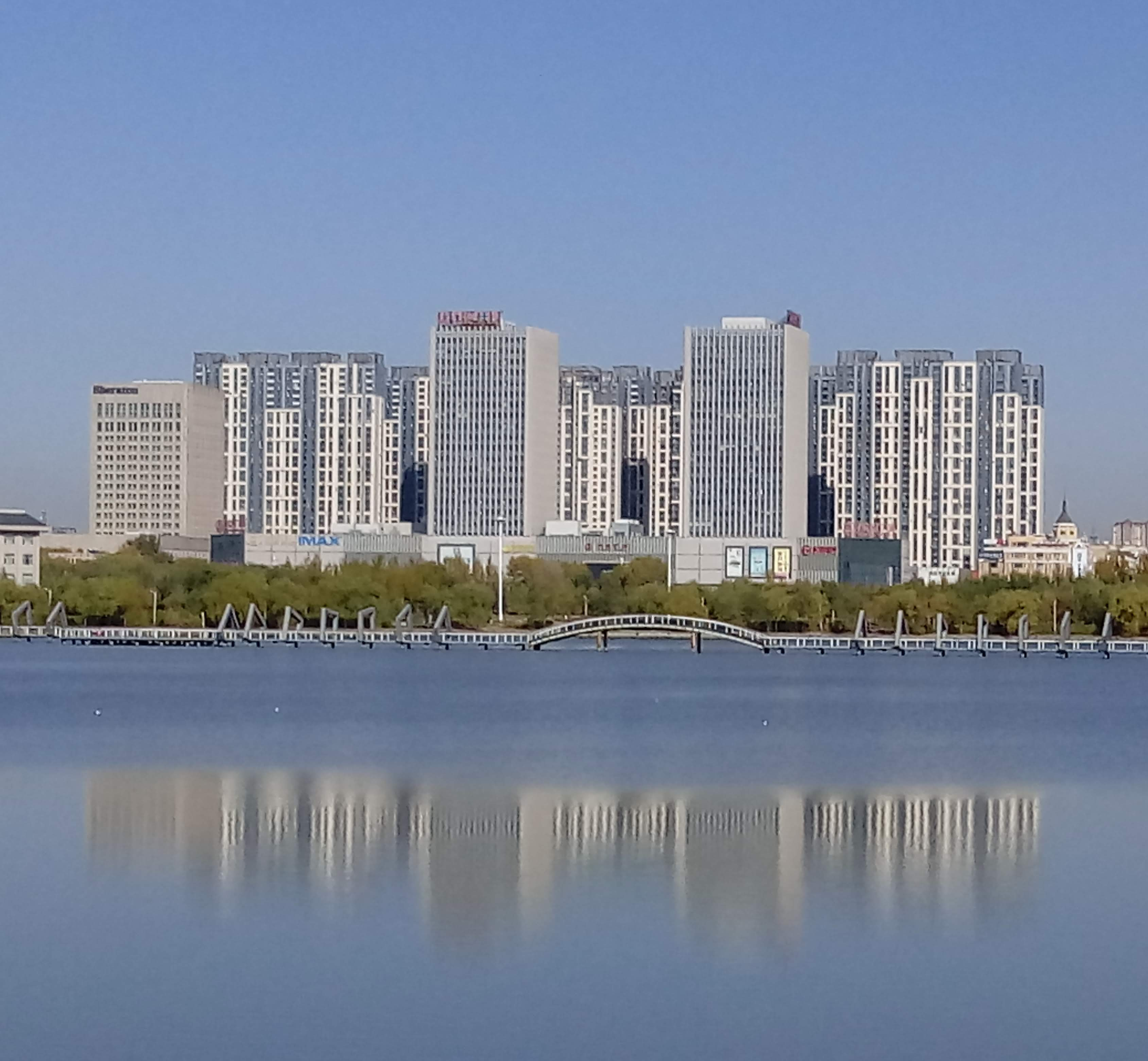 Skyline of Sartu District, Daqing. Wanbao Lake. China